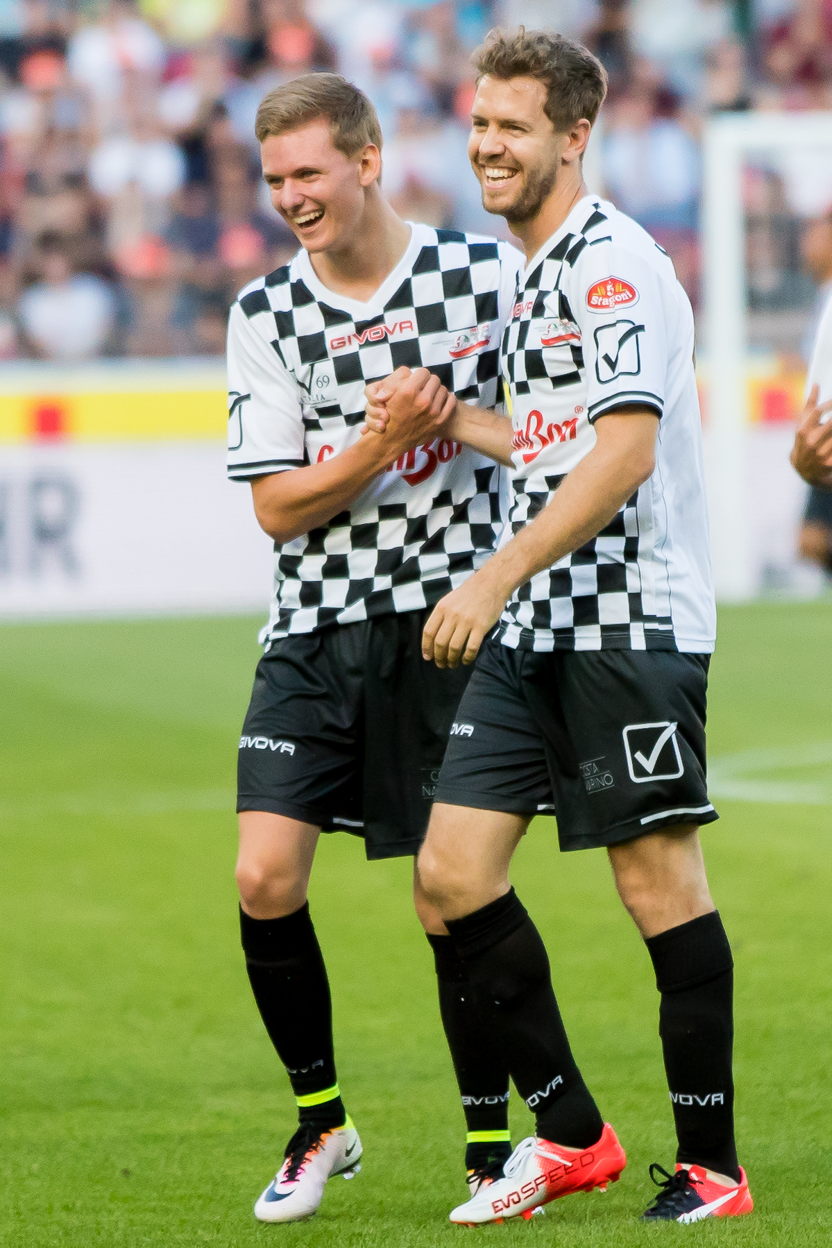 during football match between Nowitzki All Stars and Nazionale Piloti in honor of Michael Schumacher at Opel Arena, Mainz, Rheinland Pfalz, Germany on 2016-07-27, Photo: Sven Mandel